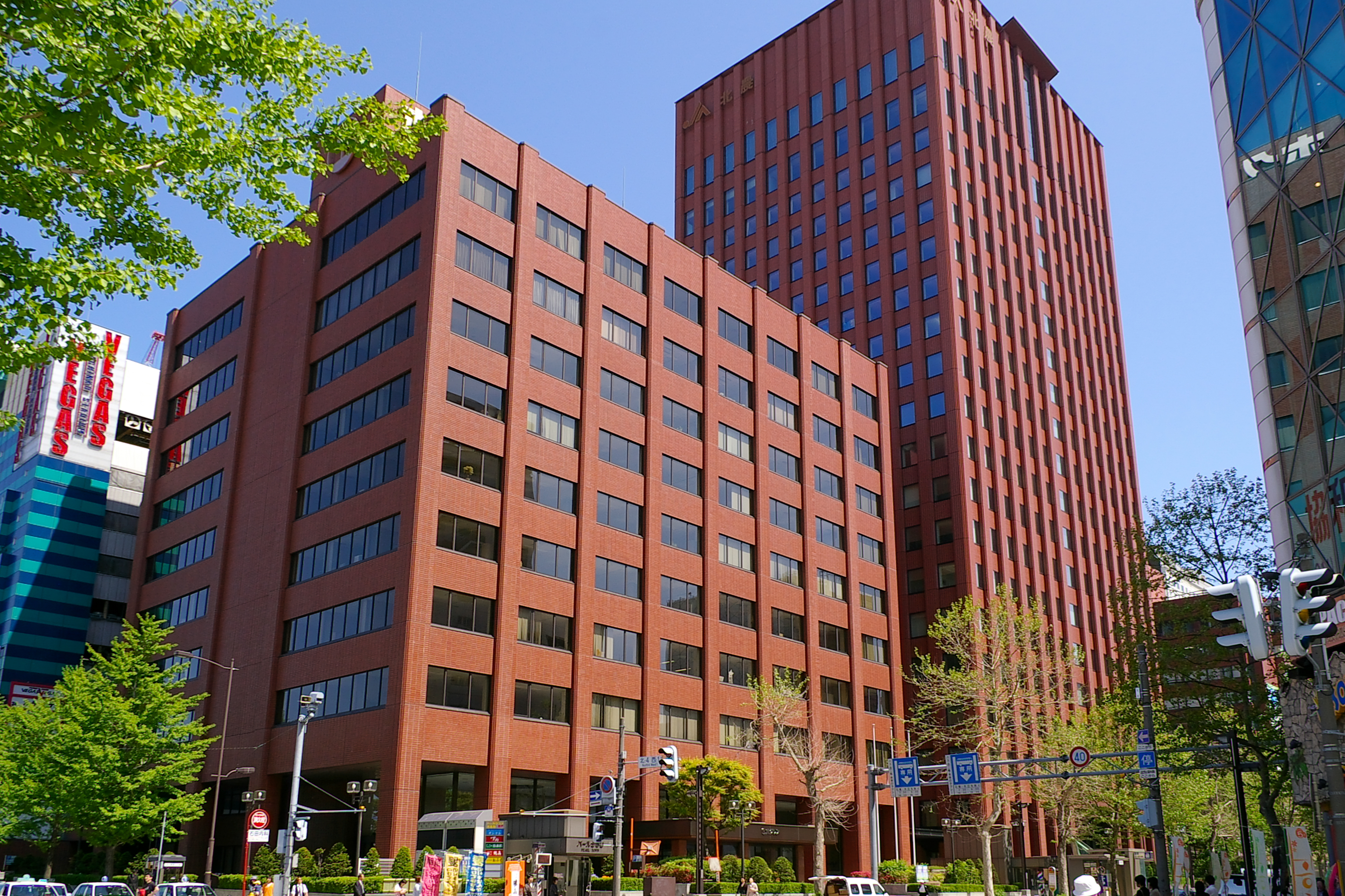 Photograph of Hokuren Building (left, headquarters of Hokuren Federation of Agricultural Cooperatives) and JA Hokuno Building (right, headquarters of Hokkaido Central Union of Agricultural Cooperatives) in Chuo-ku, Sapporo, Hokkaido, Japan.